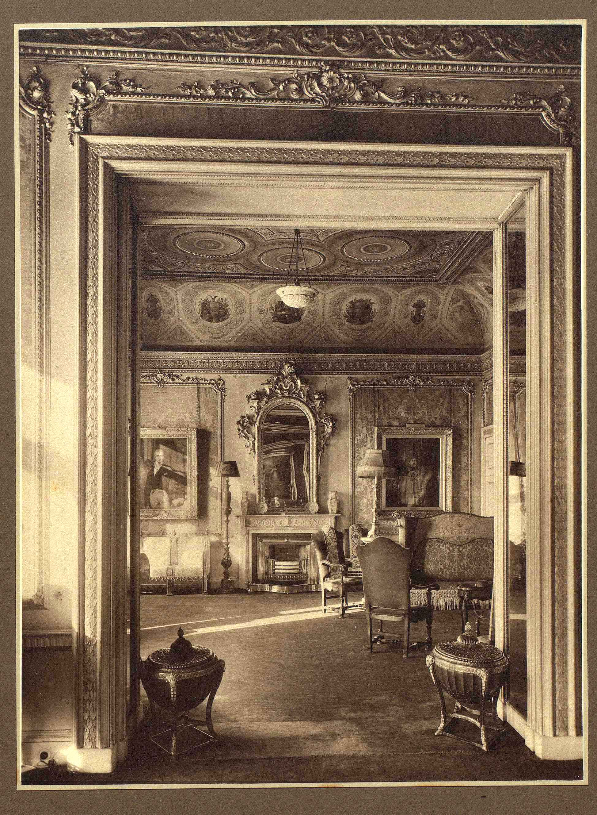 Creator: unknown Date: 1920s Original Format: Photographic print Description: Drawing room of Londonderry House, Park Lane, London c.1920s PRONI Ref: D4567/2/23 Copying and copyright: Please For Copy Orders, contact